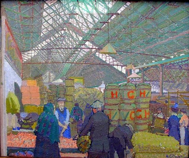 Leeds Market